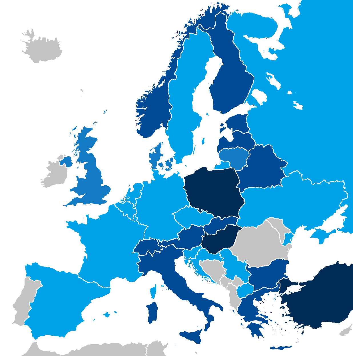 The sources for parties' ideologies are taken from parties-and-elections.eu Right-wing populists in government: Austria: Freedom Party of Austria Greece: Independent Greeks Italy: Lega Nord Norway: Progress Party Switzerland: Swiss People's Party Right-wing populists in the Parliament Belgium: Vlaams Belang Belgium: People's Party Denmark: Danish People's Party Finland: Finns Party France: Rassemblement National Germany: Alternative für Deutschland Greece: Golden Dawn Luxembourg: Alternative Democratic Reform Party Netherlands: Freedom Party Spain: Vox Sweden: Sweden Democrats Switzerland: League of Ticinesians Switzerland: Geneva Citizens' Movement